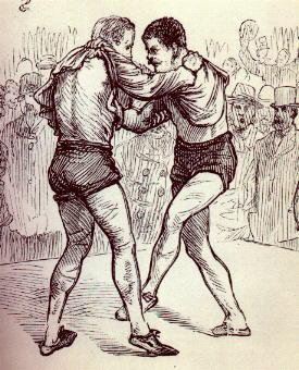 Historical engraving seen on webpage discussing "Rules for Irish Collar & Elbow wrestling". Page seems to imply it comes from the book "The Magnificent Scufflers."